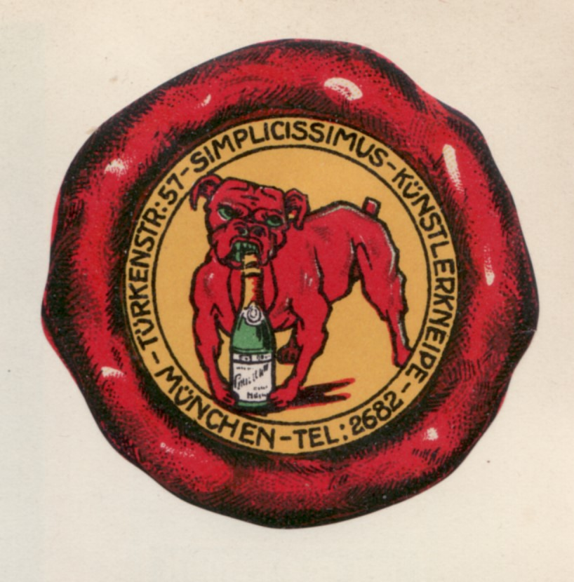 Reklamemarke der Spimplicissimus-Künstlerkneipe